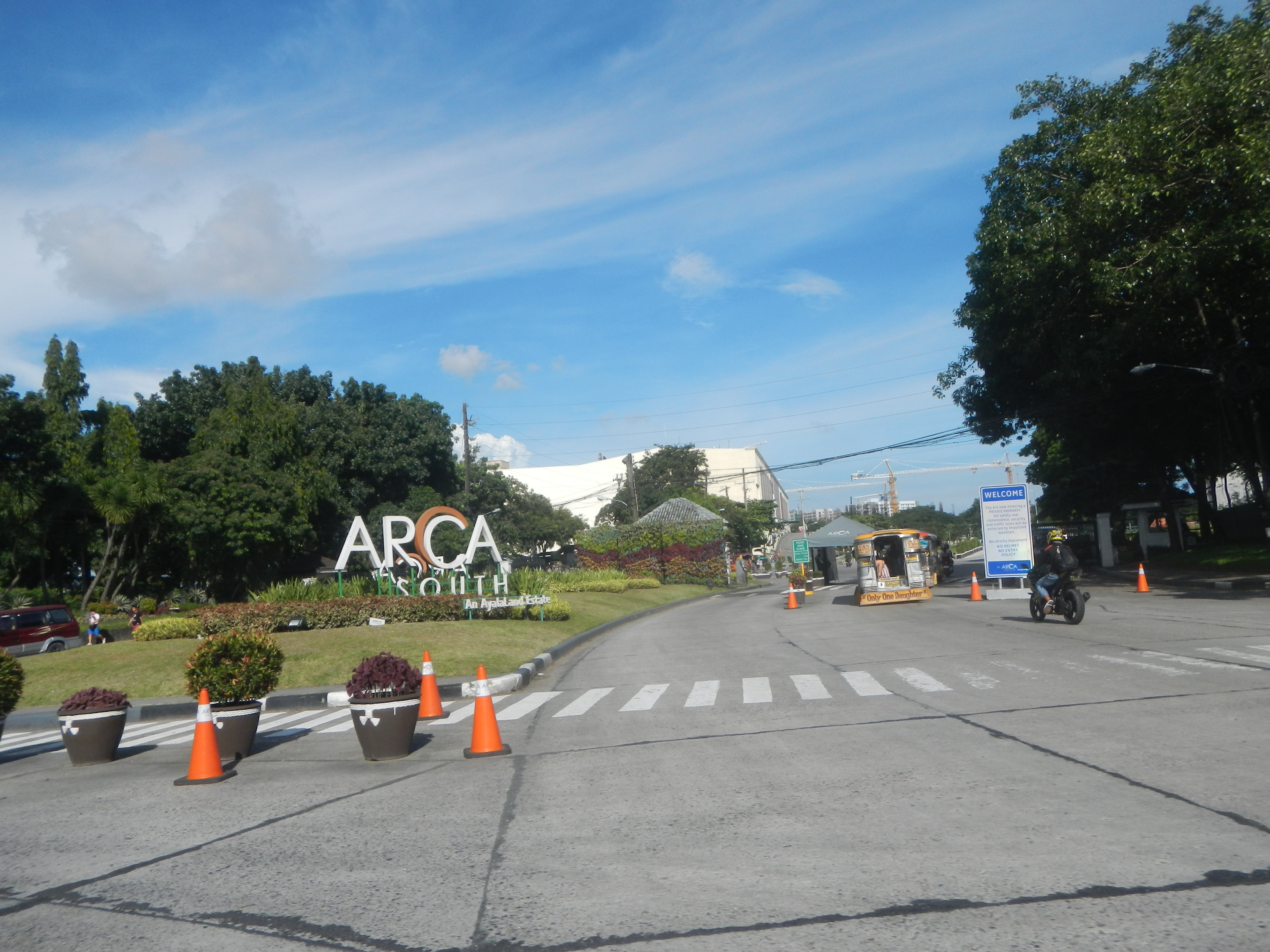 Arca South East Service Road 14°28'8"N 121°2'43"E List of barangays of Metro Manila, Legislative districts of Parañaque 1st District, Districts and barangays, San Martin de Porres 14°28'54"N 121°2'33"E Parañaque City (Note: Judge Florentino Floro, the owner, to repeat, Donor Florentino Floro of all these photos hereby donate gratuitously, freely and unconditionally all these photos to and for Wikimedia Commons, exclusively, for public use of the public domain, and again without any condition whatsoever).